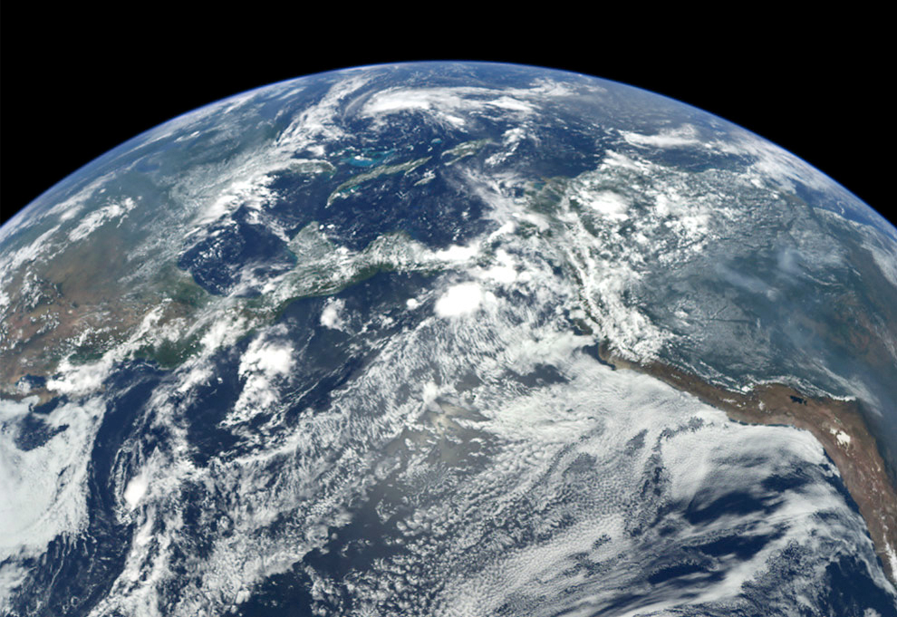 The MESSENGER probe did a flyby of Earth, whipping around the planet at an altitude (at closest approach) of 2,348 kilometers (1,459 miles) and a maximum speed (relative to the ground) of nearly 11 kilometers per second (7 miles per second). This tremendous distance and speed meant that MESSENGER could provide no more than a fleeting glimpse of the Earth below, but the view’s unique perspective makes it worth sharing. This image shows the Pacific Ocean in the center, South America on the right and North America on the left. Smoke from fires in the Amazon obscured the lush vegetation of the rainforest, while just left of the apex of the globe, Tropical Storm Harvey was taking shape in the Atlantic Ocean.